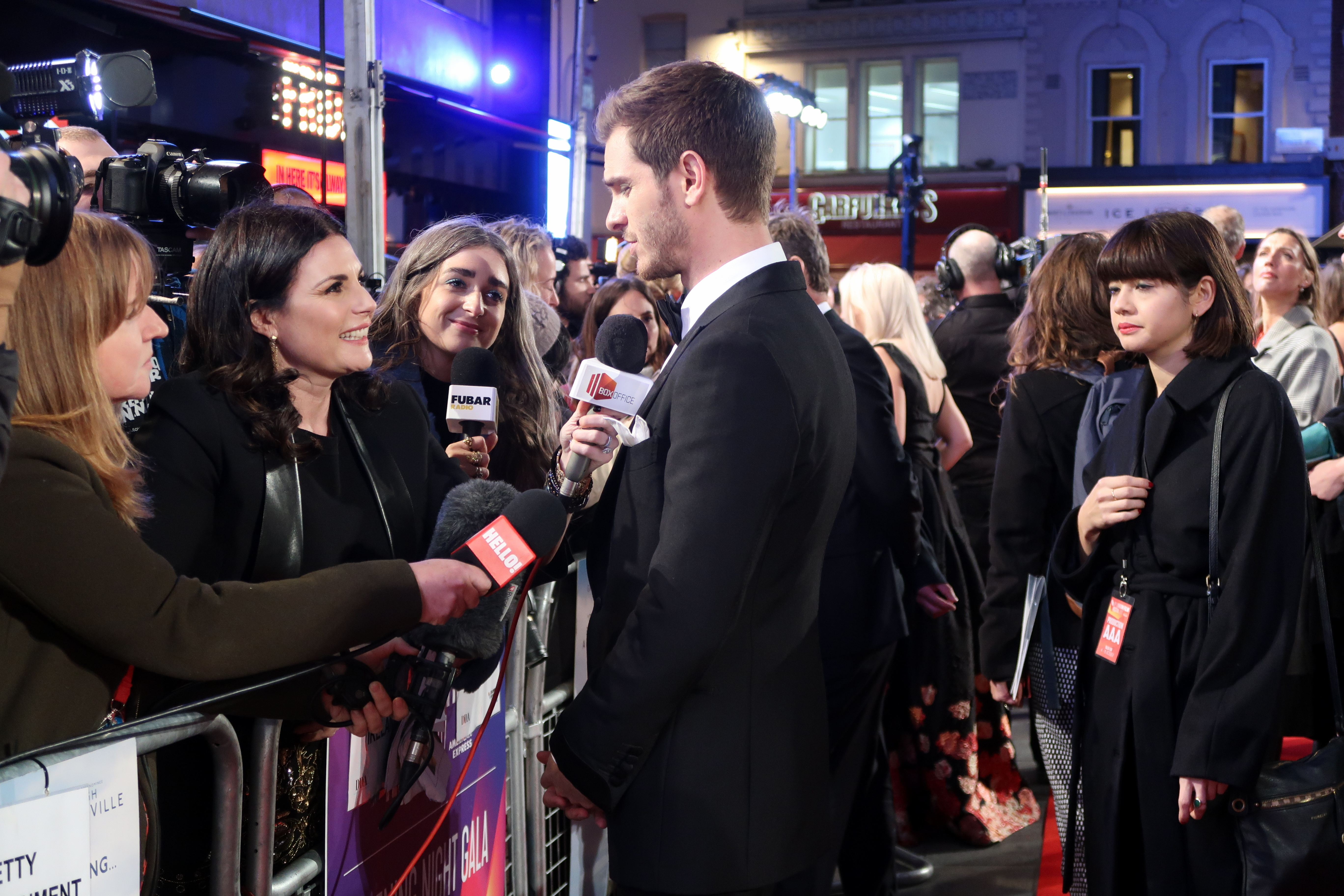 Andrew Garfield on the 'Breathe' red carpet